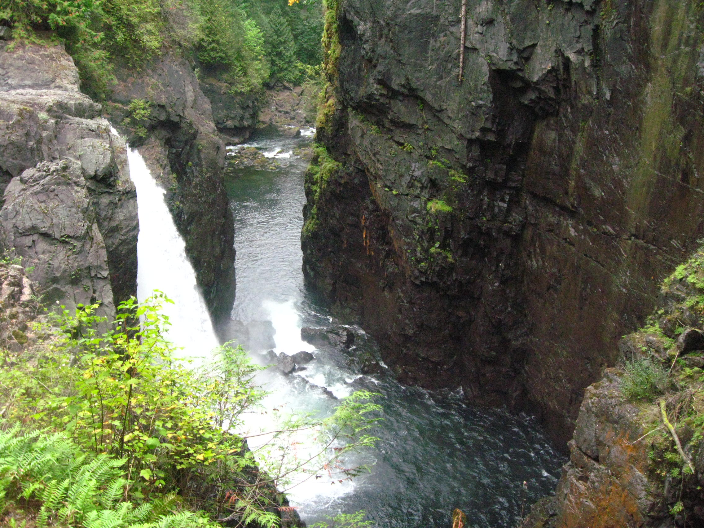 Elk Falls Provincial Park, Vancouver Island, BC